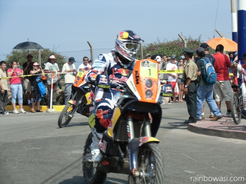 Cyril Despres on KTM motorbike during first stage of 2013 Dakar Rally